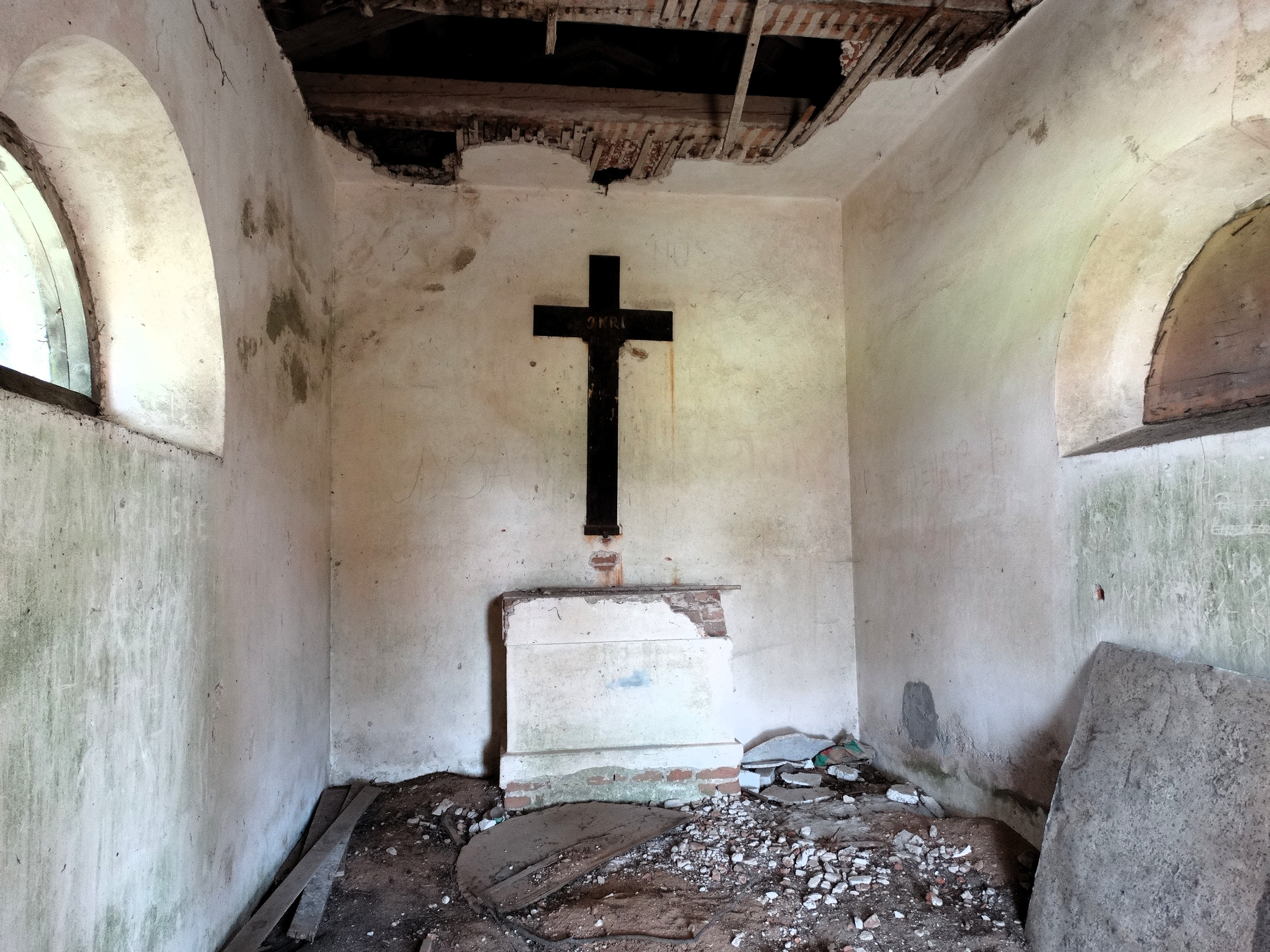 Chapel in Daumantiškiai, Ukmergė district, Lithuania